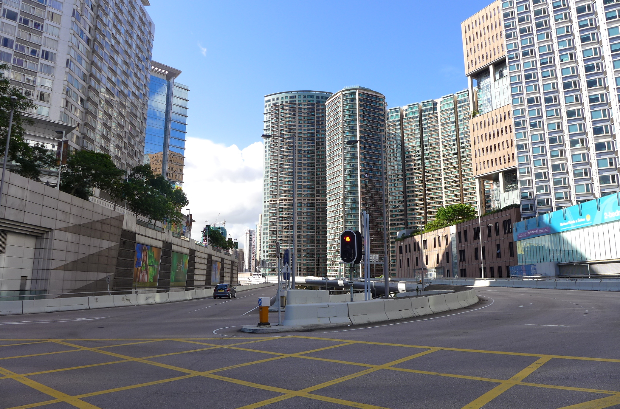 Cheong Tung Road South